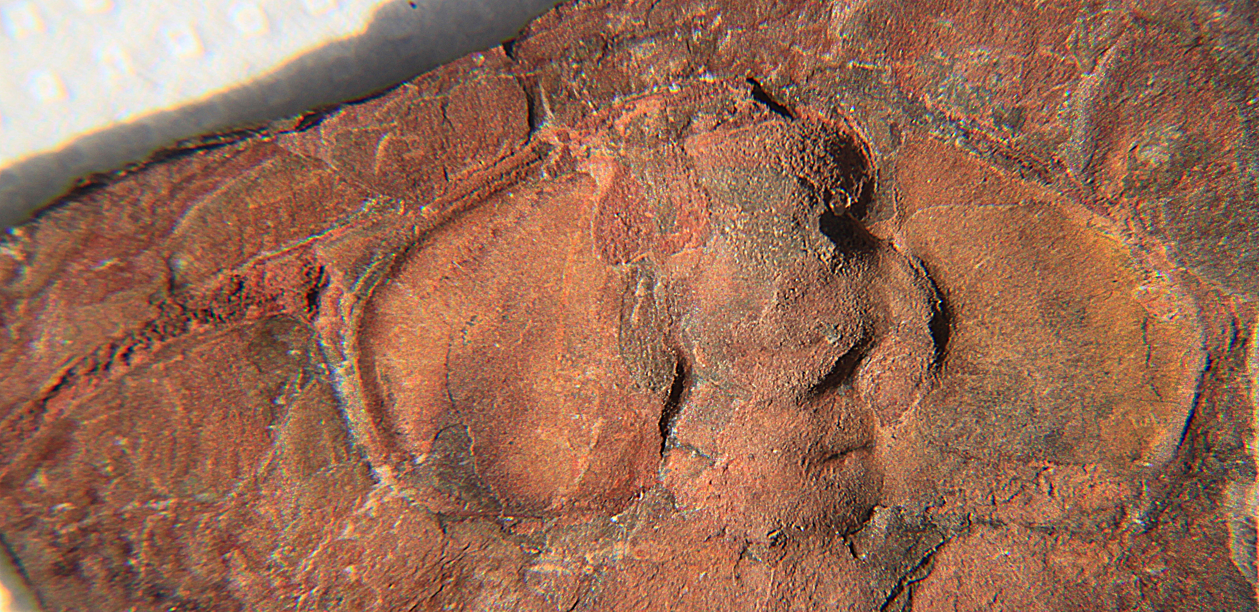 A Bristolia bristolensis, trilobite, cephalon, negative inprint, Family Biceratopsidae, Order Redlichiida, 16mm (cephalon only) along the axis, collected from the Latham formation, near Cadiz, California, USA, from the Lower Cambrian (Toyonian)